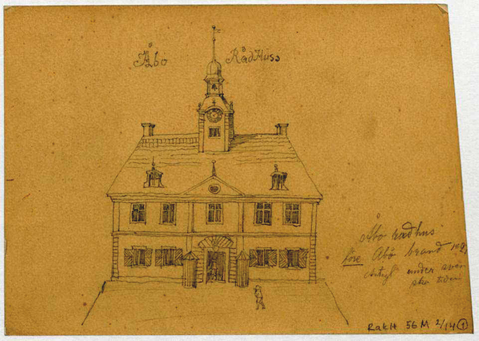 The city hall of Turku, Finland, built in 1736. It was badly damaged in the Great Fire of Turku 1827, and a new building was erected on its place. It is the new building that is today called "the old city hall".